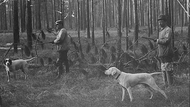 Photograph of William Merriam and Horace Thompson hunting. Photograph Collection ca. 1890. Location no. GV3.31 r24 Negative no. 92871